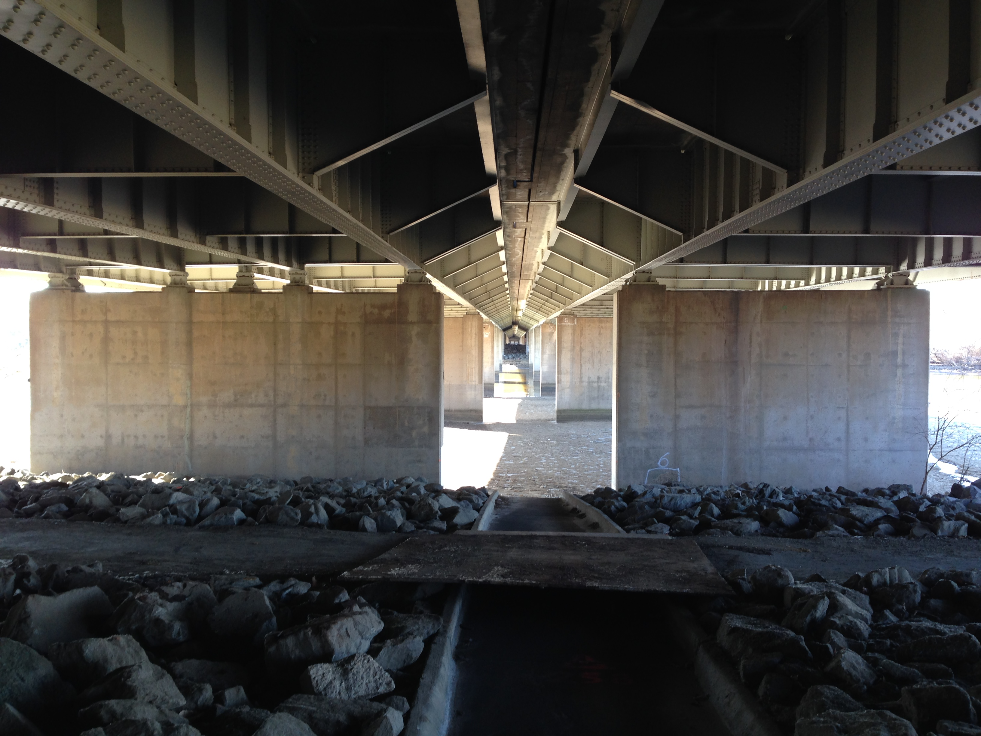 Underside of the Whitney Young Memorial Bridge over the Anacostia River in Washington, DC in January 2015